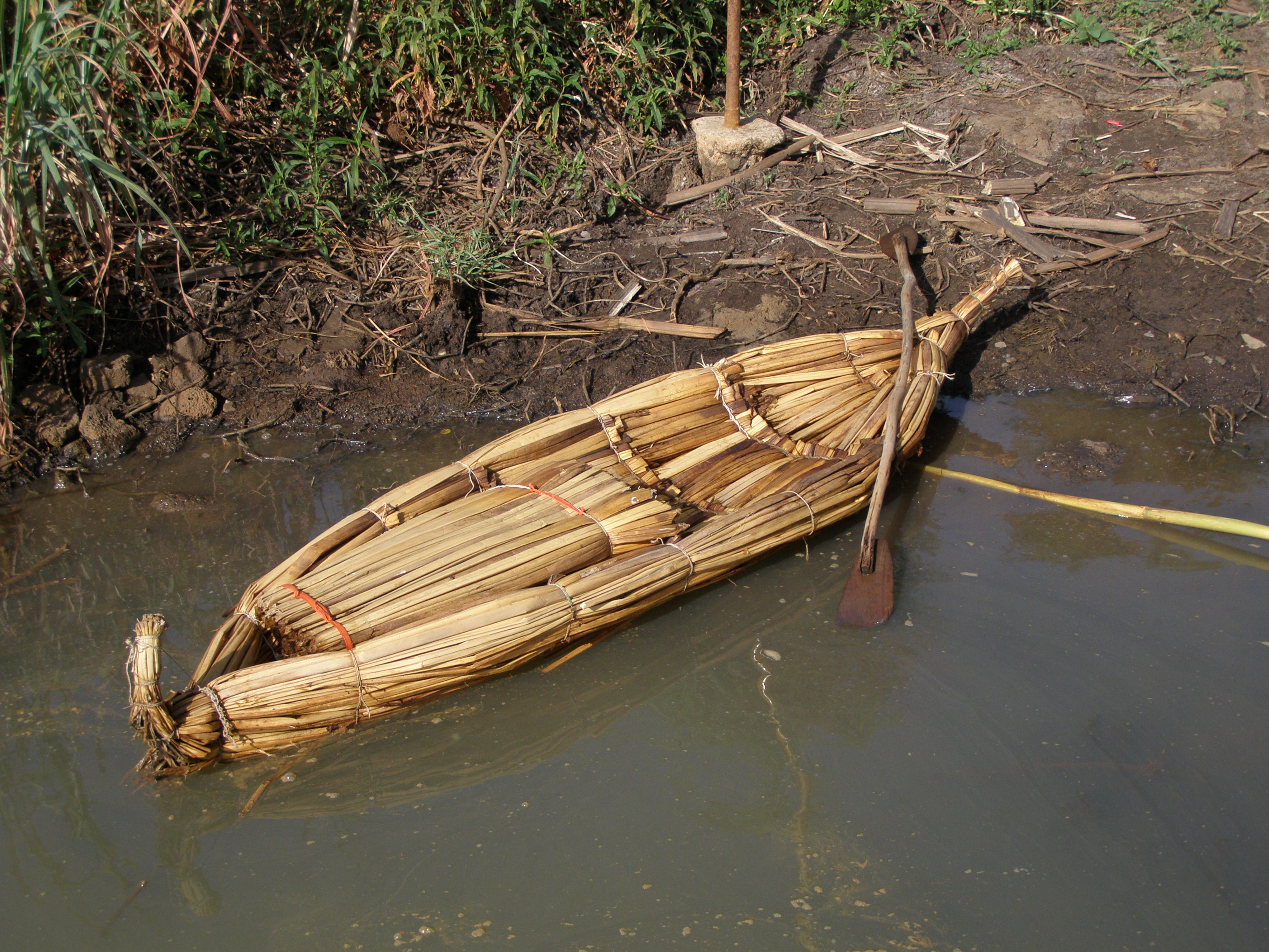 Tankwa or tangwa : Traditional ethiopian embarcation from Lac Tana, made of papyrus by Nagades people.